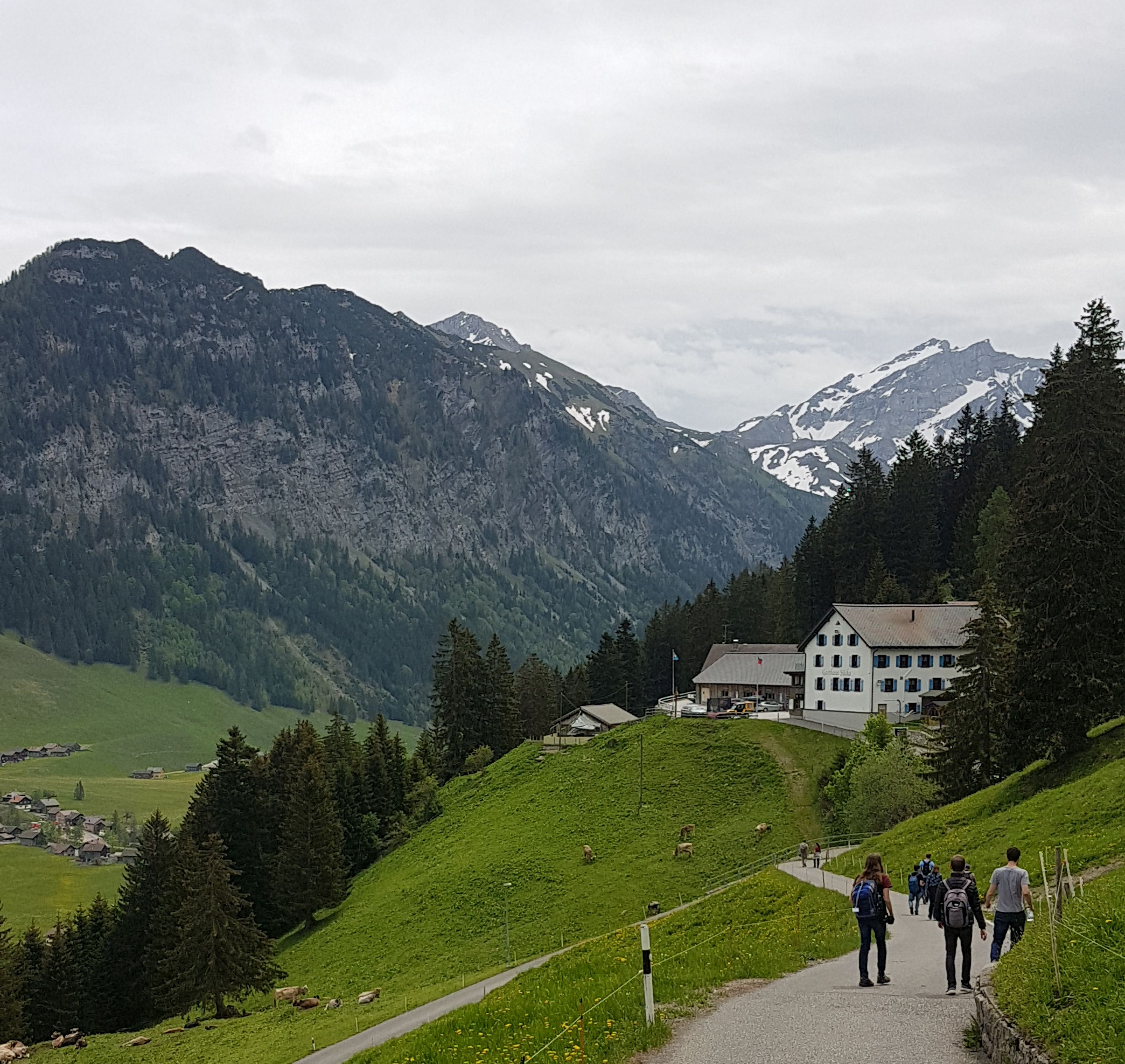 Steg in the Principality of Liechtenstein. Inn Stücka.